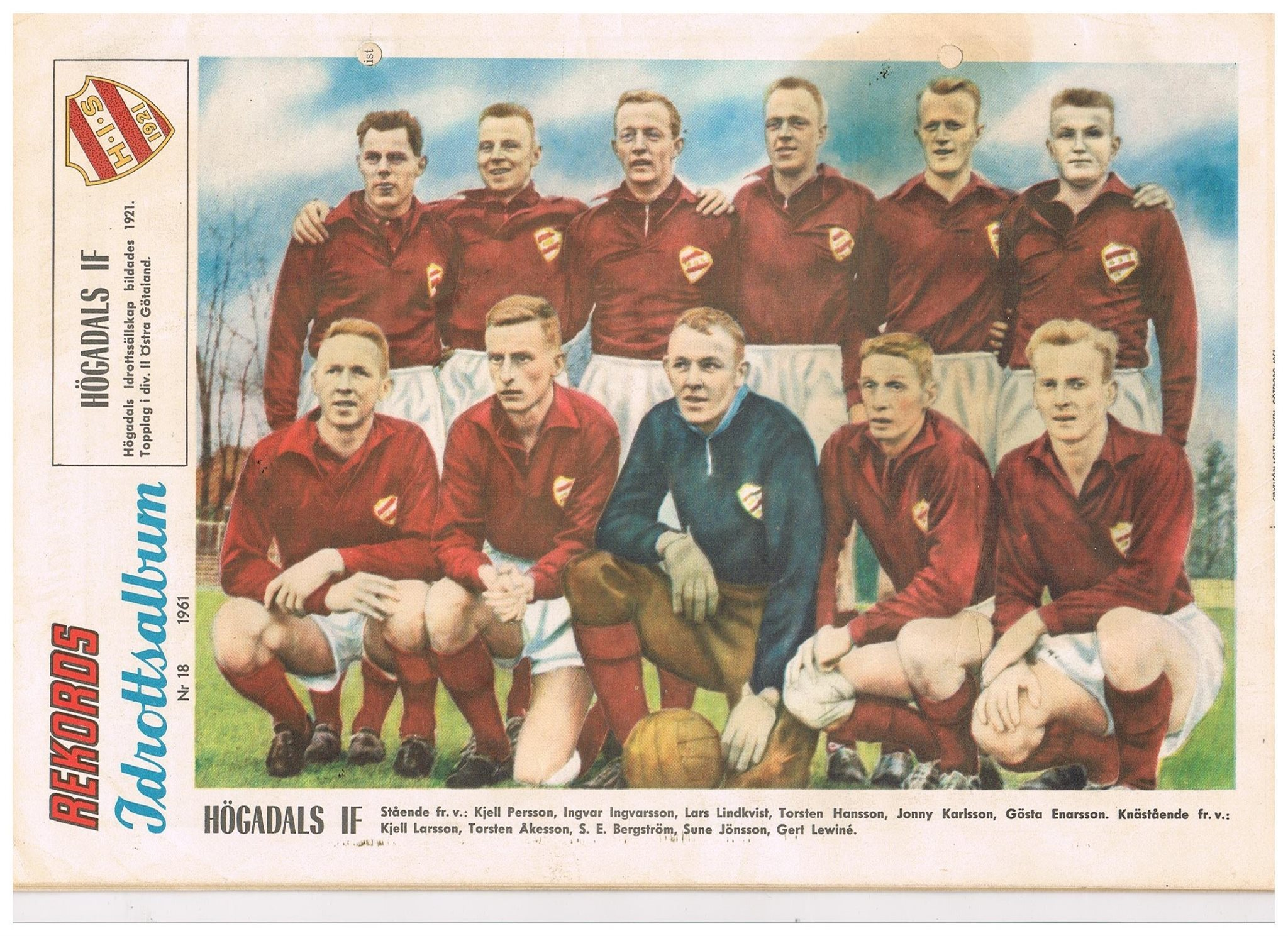 Högadals IS Karlshamn under their heyday when they played in the top flight in Sweden, Allsvenskan.